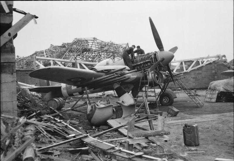 Royal Air Force- 2nd Tactical Air Force, 1943-1945. Hawker Typhoon Mark IB, MN606, of No. 247 Squadron RAF, being overhauled by a Repair and Salvage Unit in a dispersal wrecked by the retreating Luftwaffe at B78/Eindhoven, Holland.